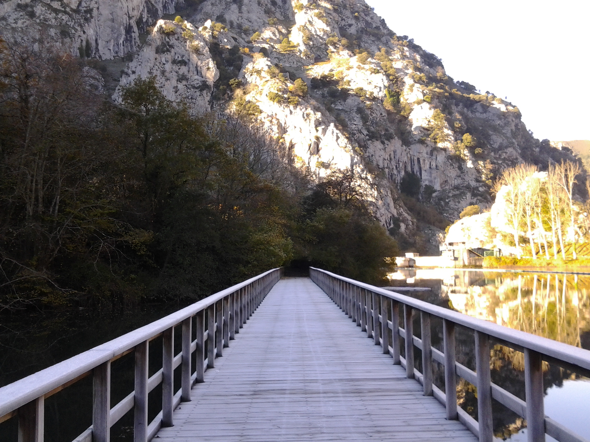 A bridge crossing Lake of Valdemurio, in Senda del Oso, Asturias, Spain.